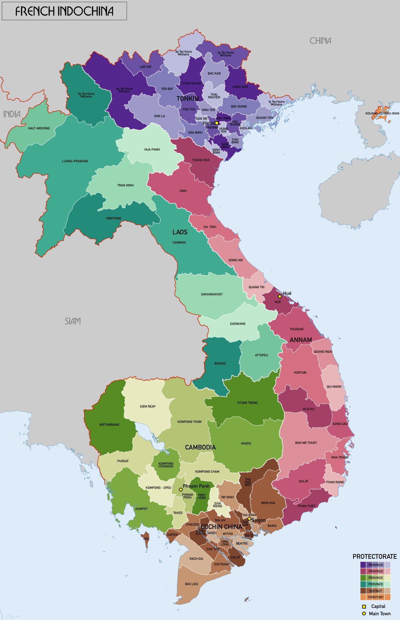 Administrative map of French Indochina in 1937. Showing protectorates and provinces/districts. Source map data: AMS 509 (Indochina & Thailand) 1:250k (PCL Map collection). Reseau Routier de l'Indochine 1:2m (BNF).